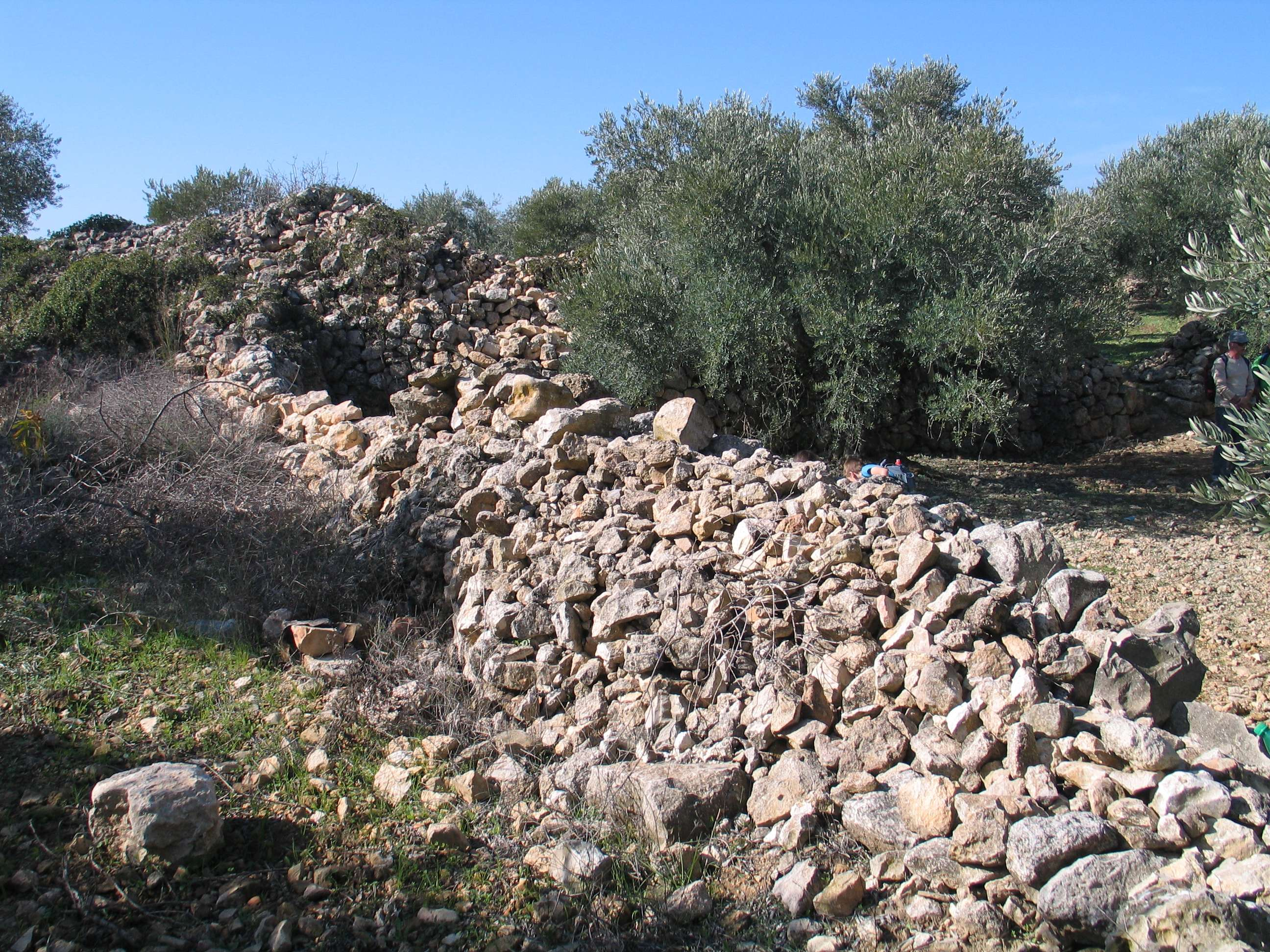 Village of Batir, West Bank.